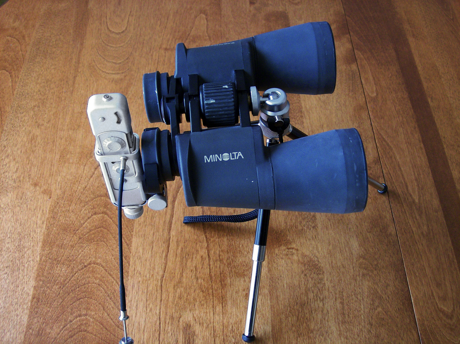 Tele Minox with adapter on a binocular